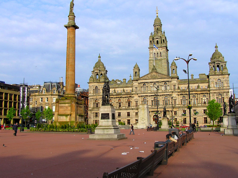 George Square and Glasgow City Chambers in Glasgow, Scotland. Of the statues visible in the photograph, Walter Scott stands on the pillar, and on the nearest plinth: Robert Burns (1877, by George Edwin Ewing, reliefs by J A Ewing, cast by Cox and Son). The red sandstone building to the left of the City Chambers is part of the University of Strathclyde.